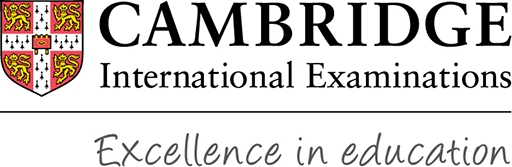 Cambridge International Examinations logo